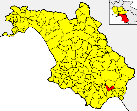 Locator map of the municipality of Morigerati (red) within the Province of Salerno